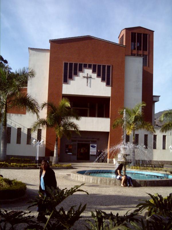 Santo Antônio Matrix Church, Center of Miguel Peraira, RJ, Brazil.